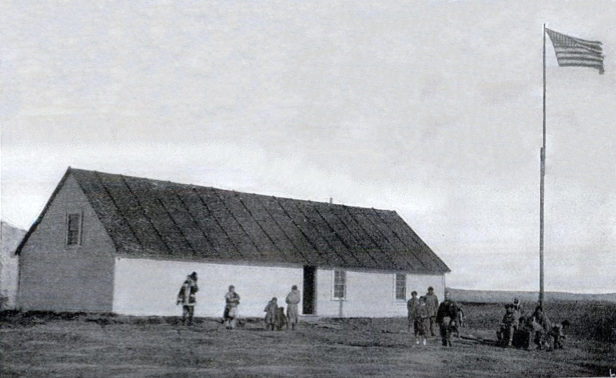 Teller Reindeer Station headquarters. Photo by S. J. Call, U.S.R.M.